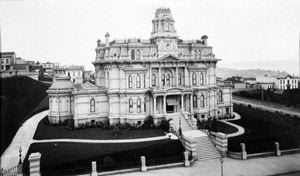 Charles Crocker mansion — on Nob Hill, San Francisco. A Victorian Italianate style house, with Second Empire style features.